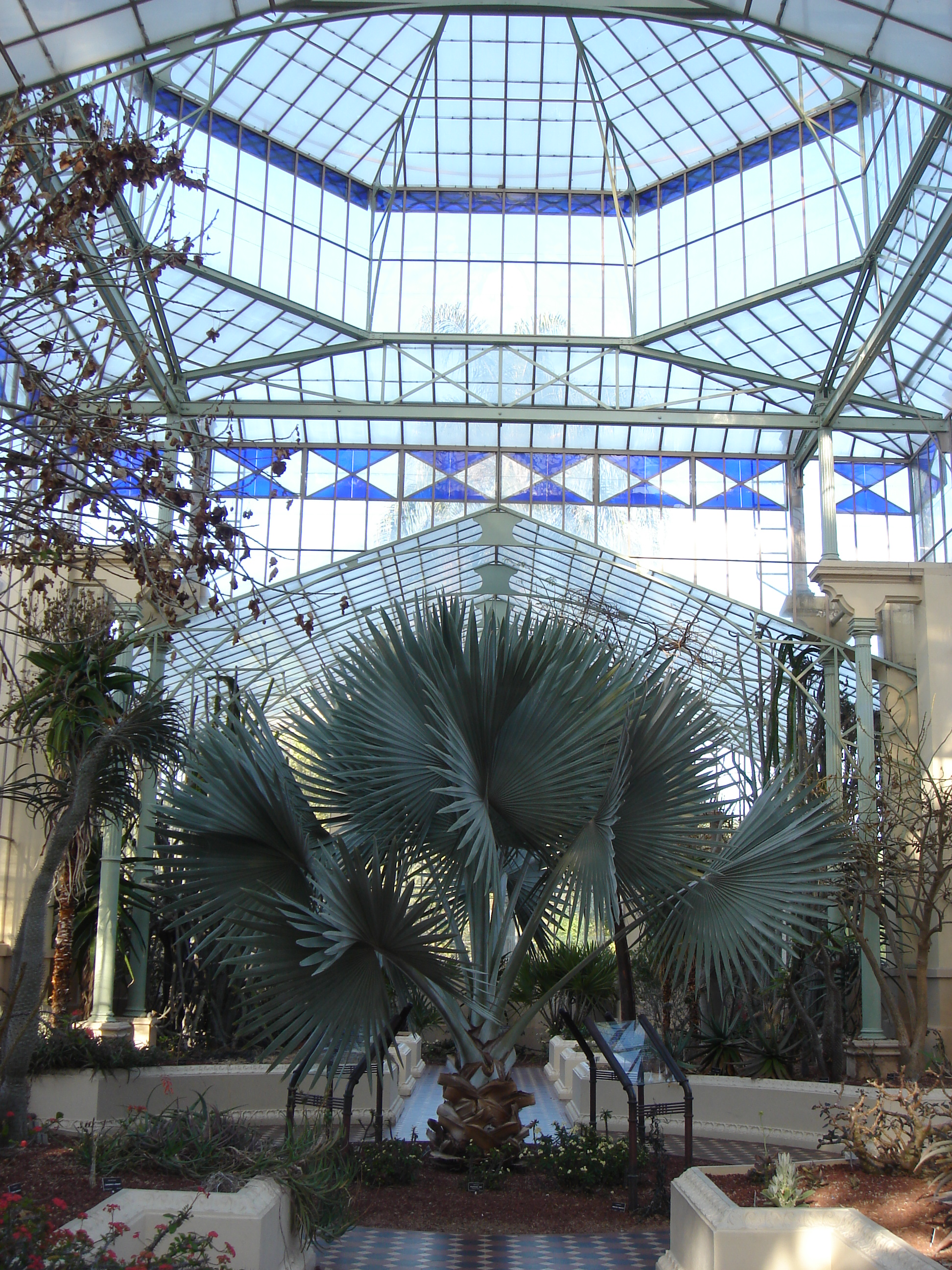 Palm House in the Adelaide Botanical Gardens